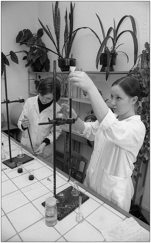 Two girl students preparing solution with the help of measuring glasses.